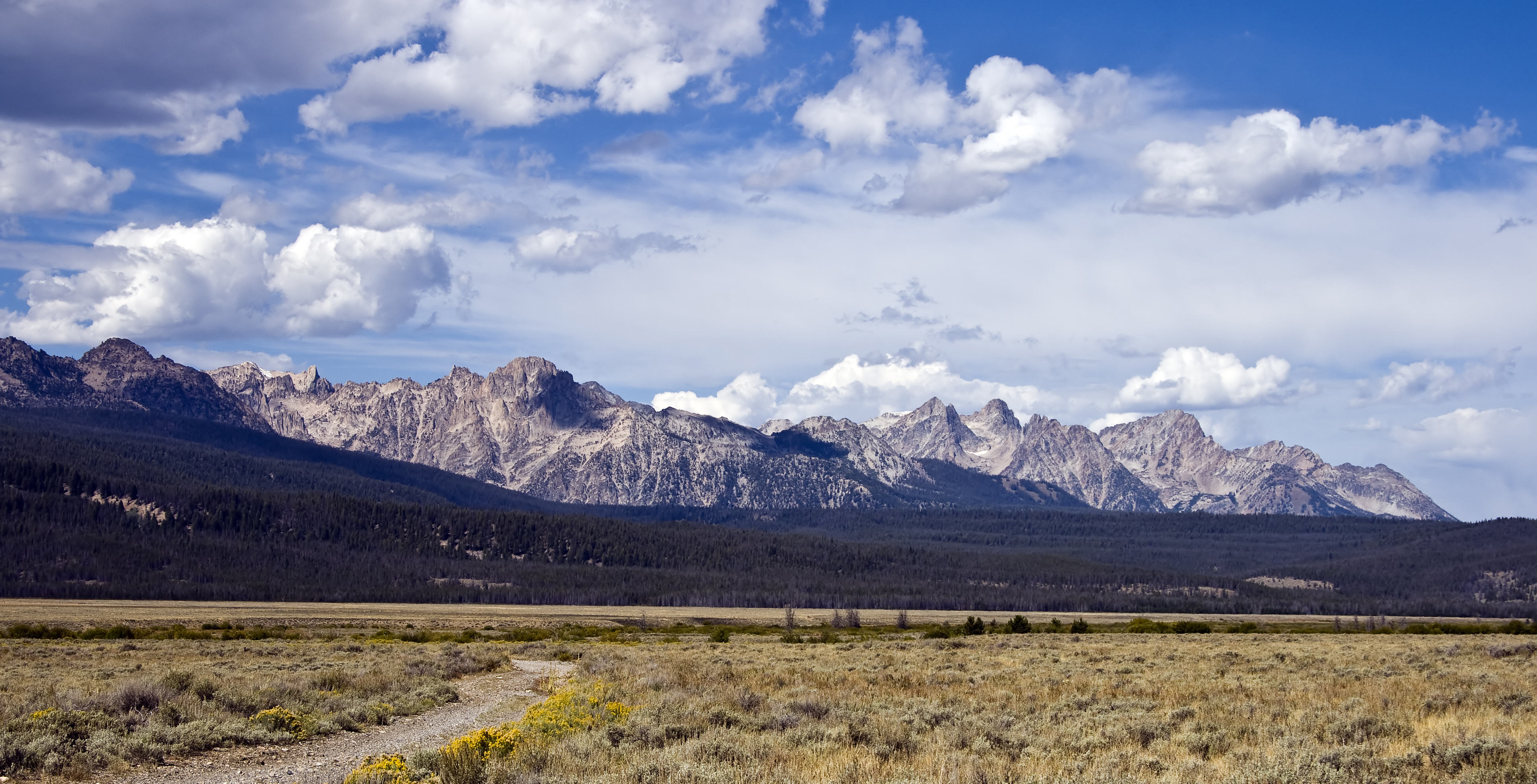 Sawtooth Range from the Sawtooth Valley, Idaho, USA